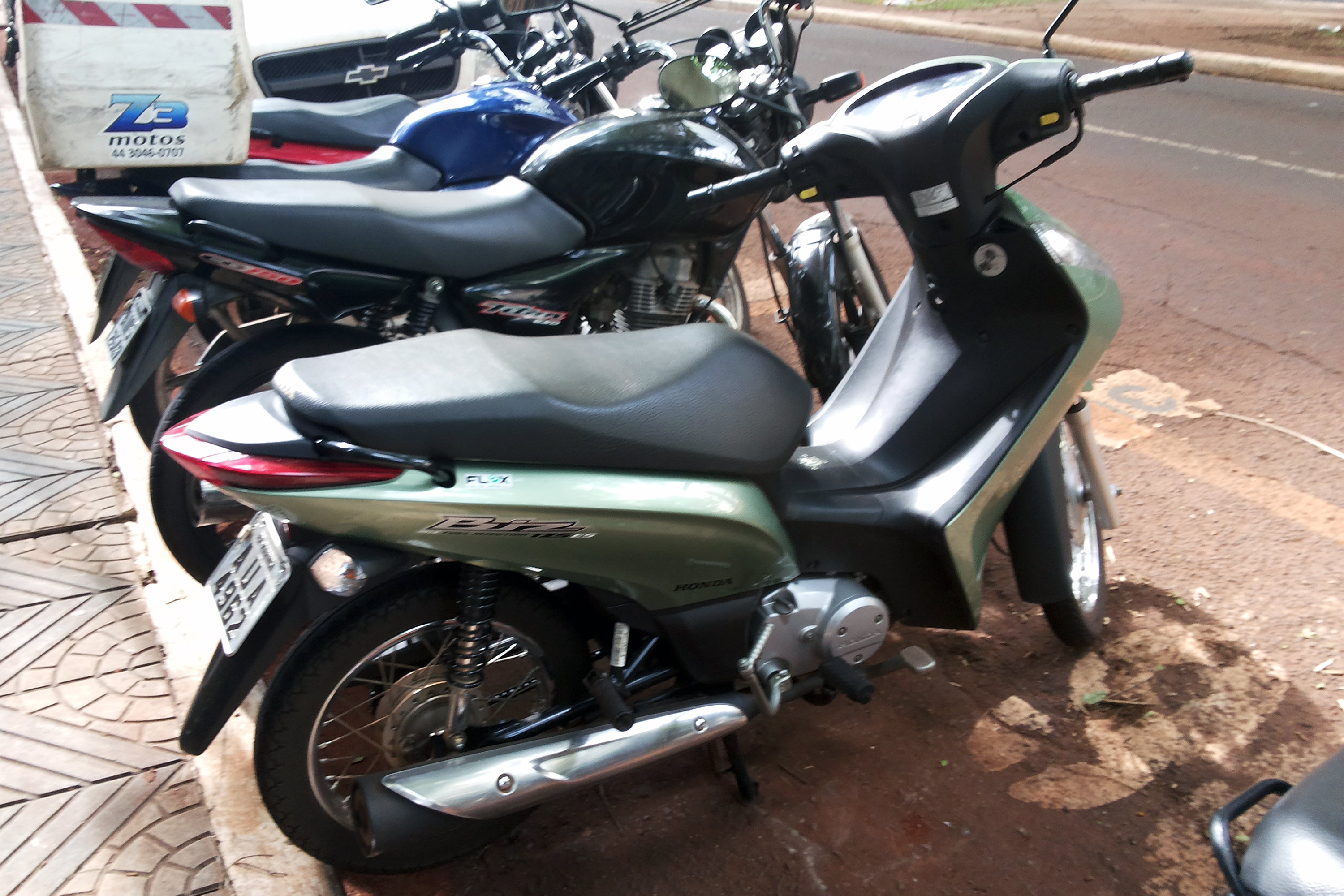 Honda Biz 125 flex-fuel motorcycle, Maringa, Brazil